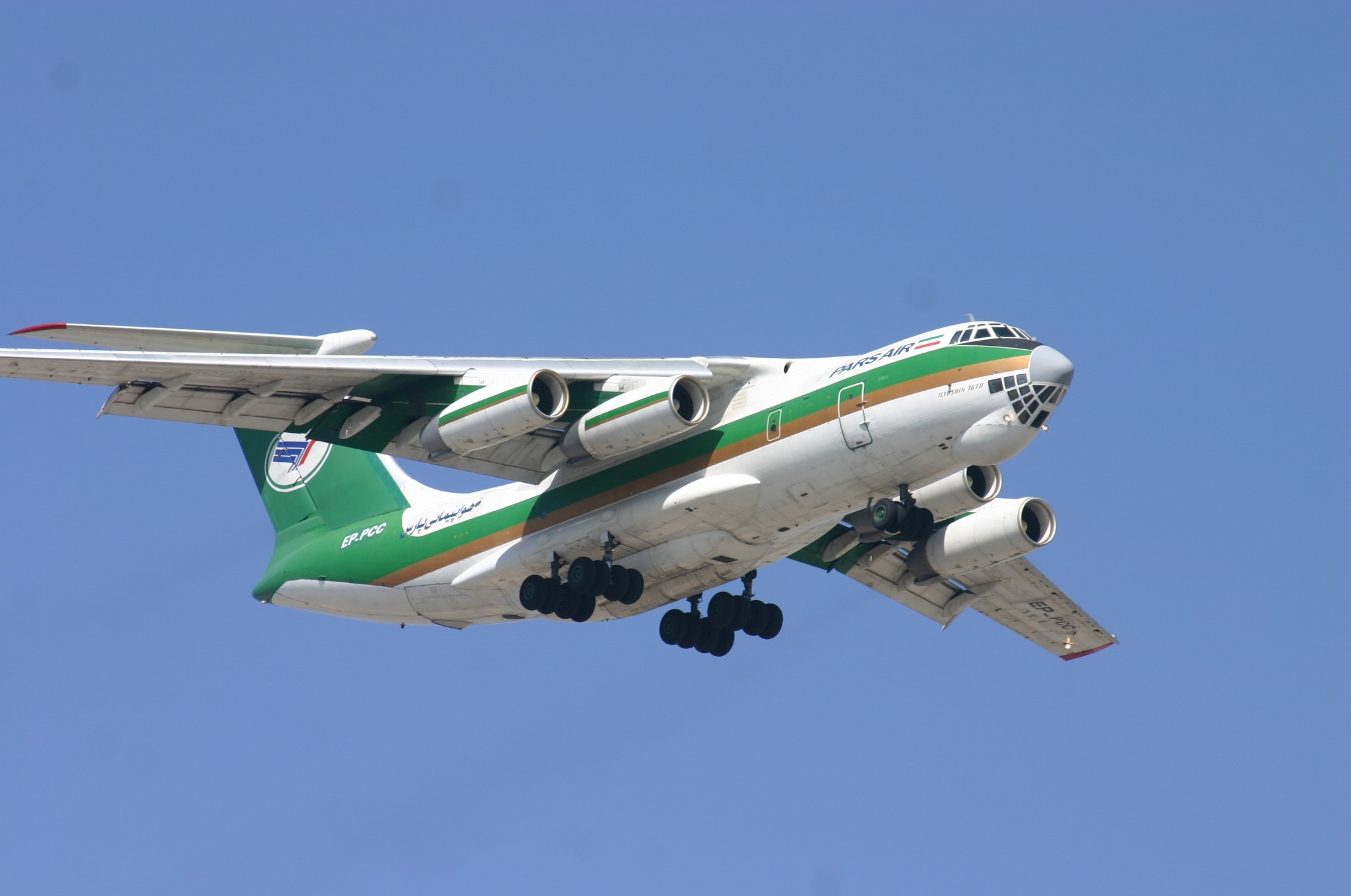 At Dubai International DXB